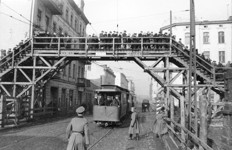 Information added by Wikimedia users.